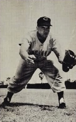 Cincinnati Reds infielder Rocky Bridges.